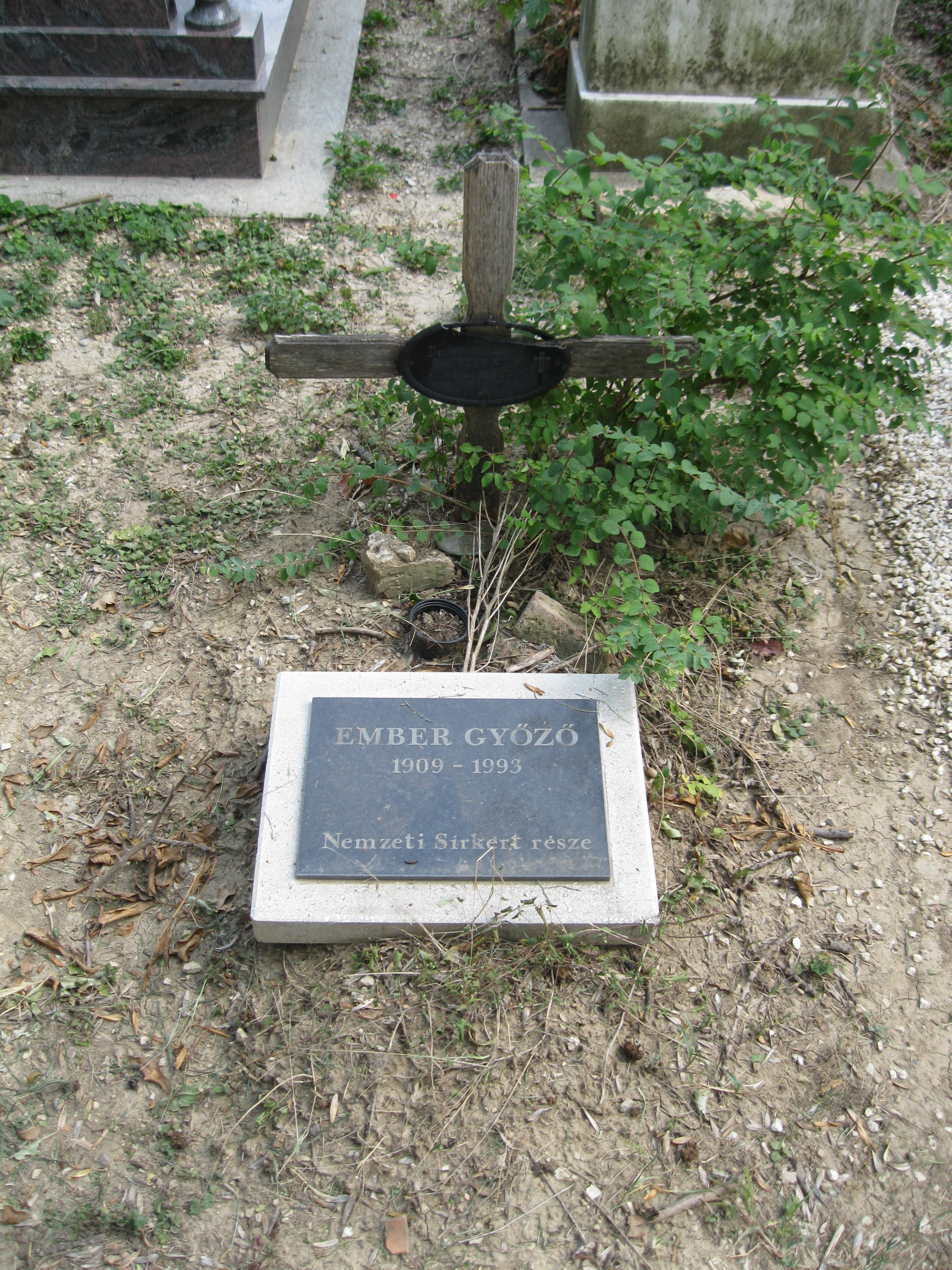 Tomb of Győző Ember in Farkasréti Cemetery [7/6-1-71].